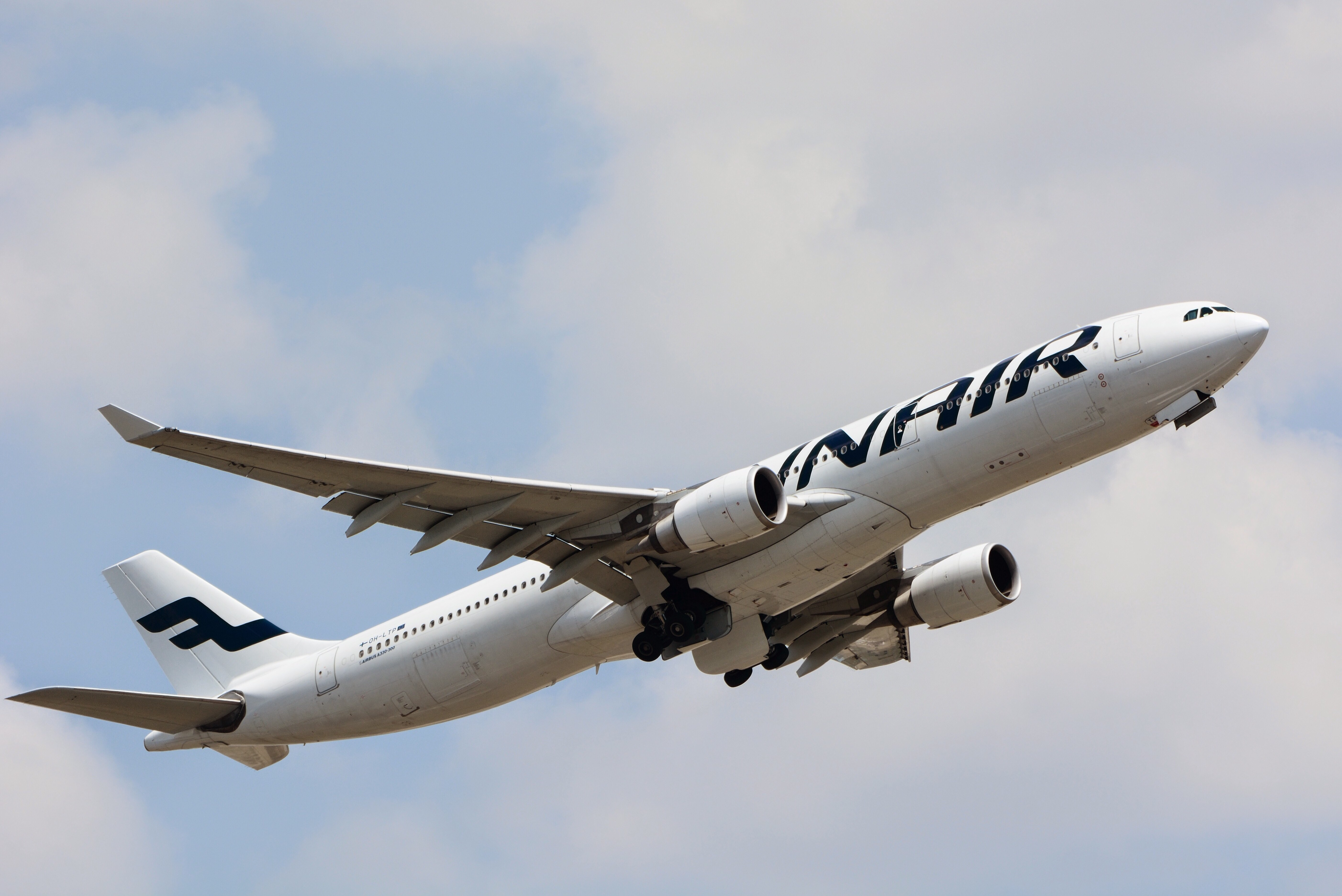 Finnair, Airbus A330-300 OH-LTP NRT